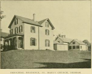 The 1867 rectory of St. Mary's Church in Dedham, Massachusetts. It has since been torn down and replaced.